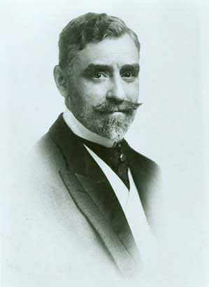 Emmanuel Louis Masqueray